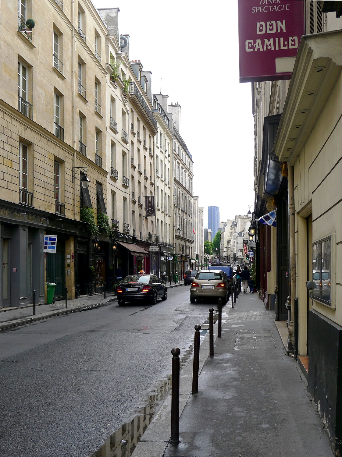 Saints-Pères street - Paris